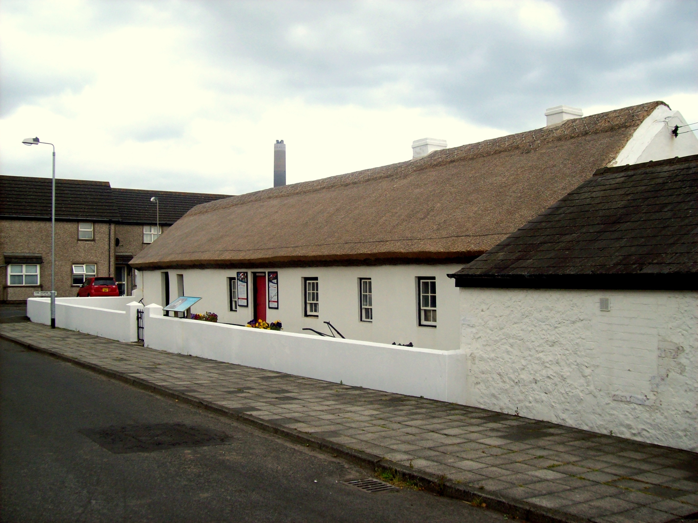 Photograph of the Andrew Jackson Centre in Boneybefore, Northern Ireland